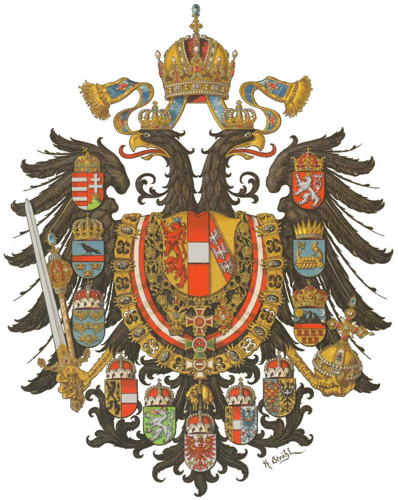 Coat of Arms of Austria-Hungary, 1866-67